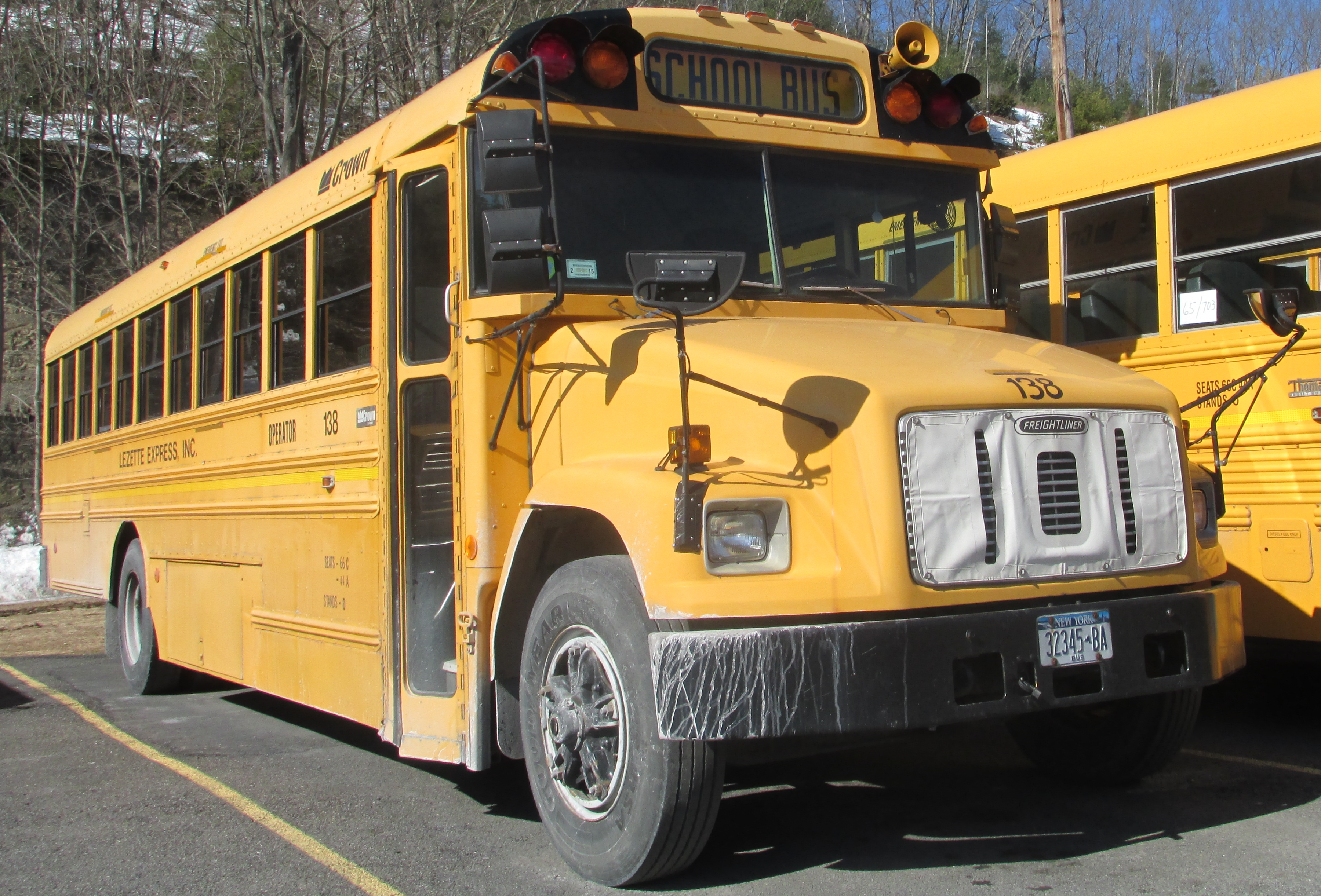 1997-1998 Freightliner FS-65 school bus with a Crown by Carpenter body, one of the rarest body combinations.